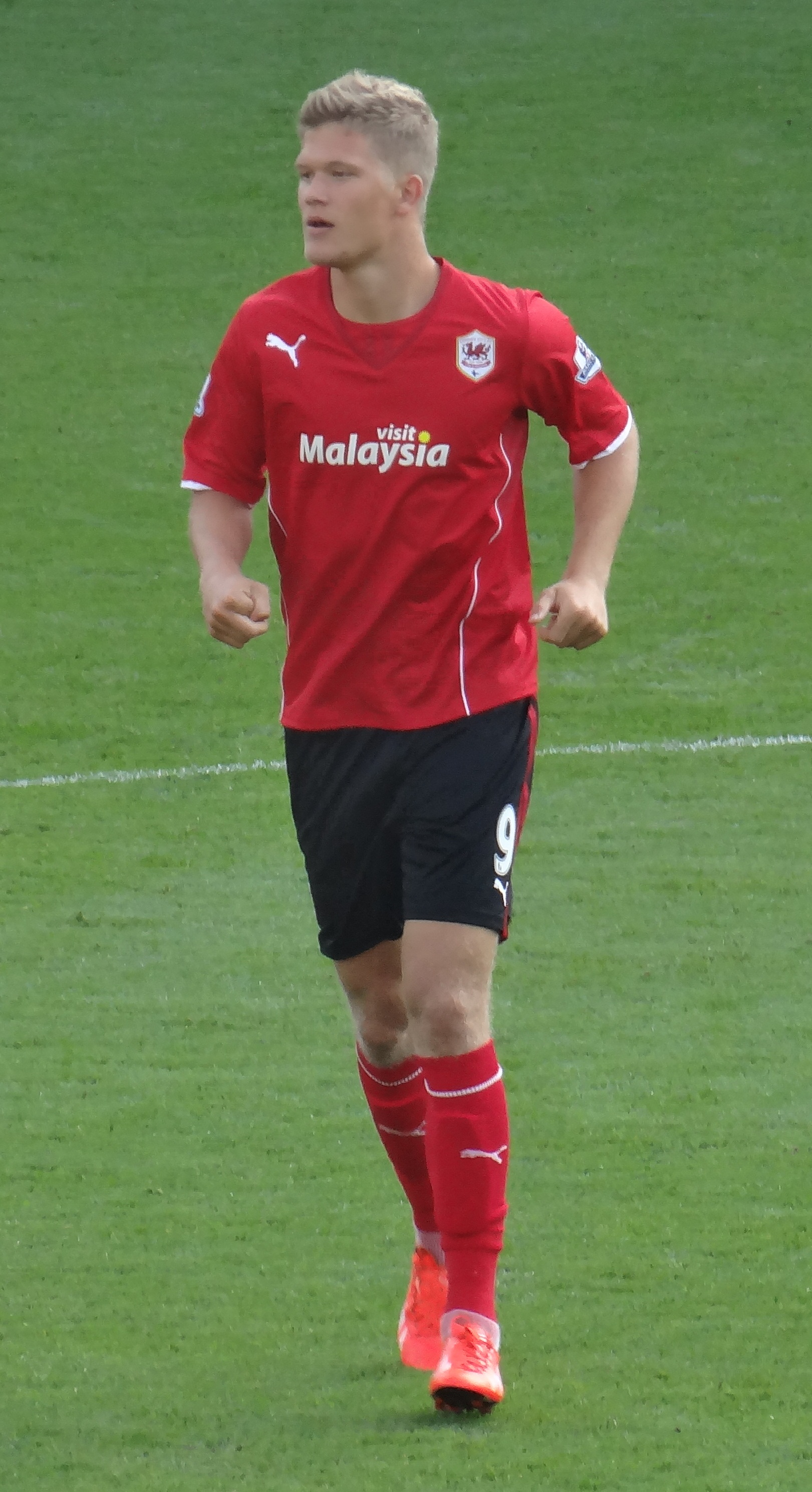 Andreas Cornelius playing for Cardiff City in 2013.